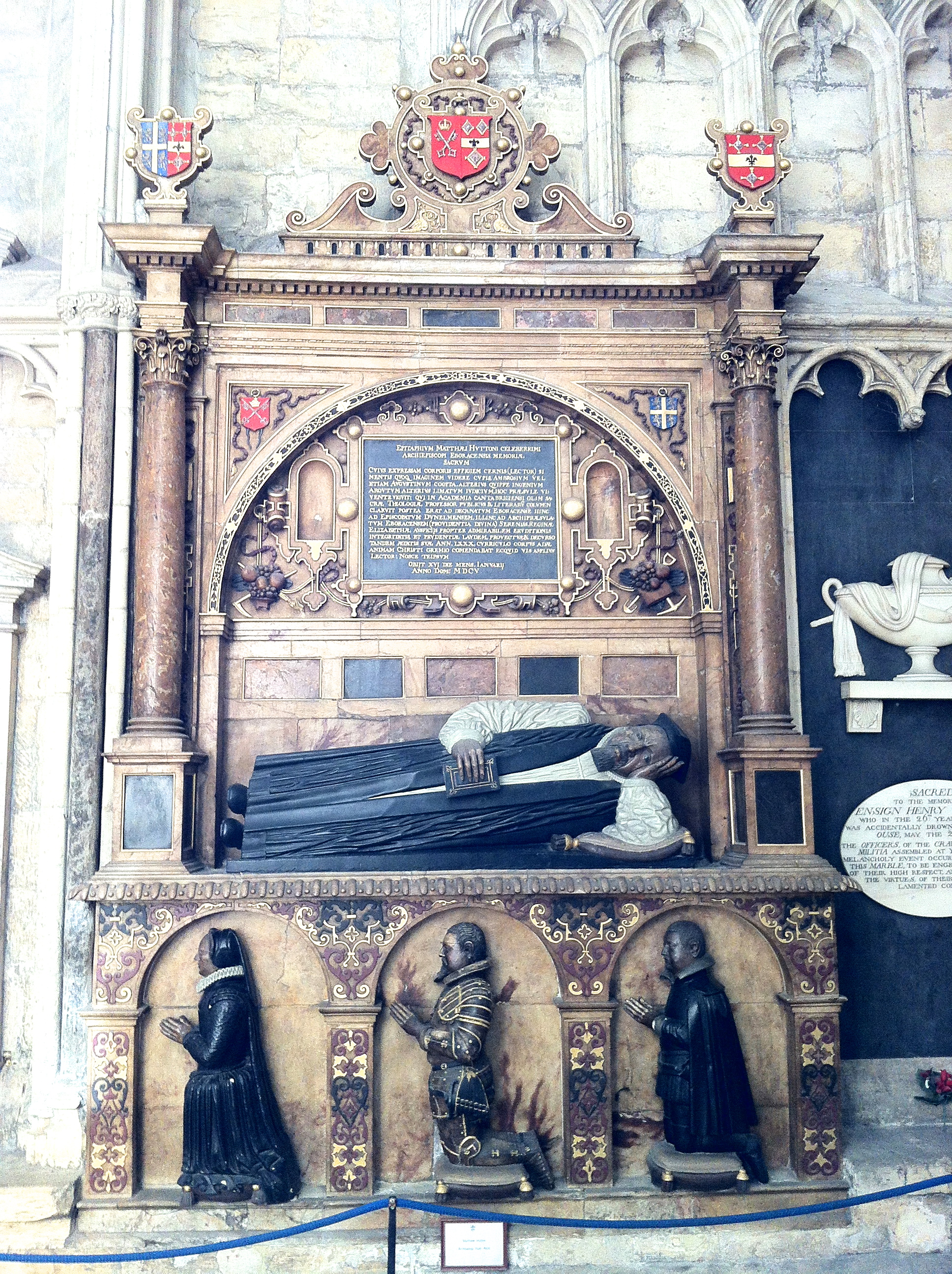 Memorial to Archbishop Matthew Hutton in the south choir aisle at York Minster.